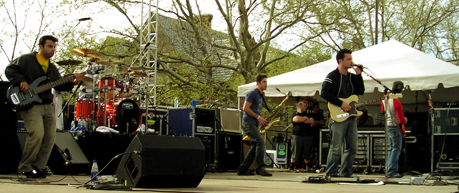 OAR performing at Cornell's 2004 Slope Day.